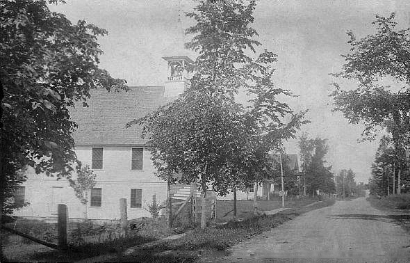 Main Street, showing church, Errol, New Hampshire. The Errol Congregational Church was dedicated in 1898.